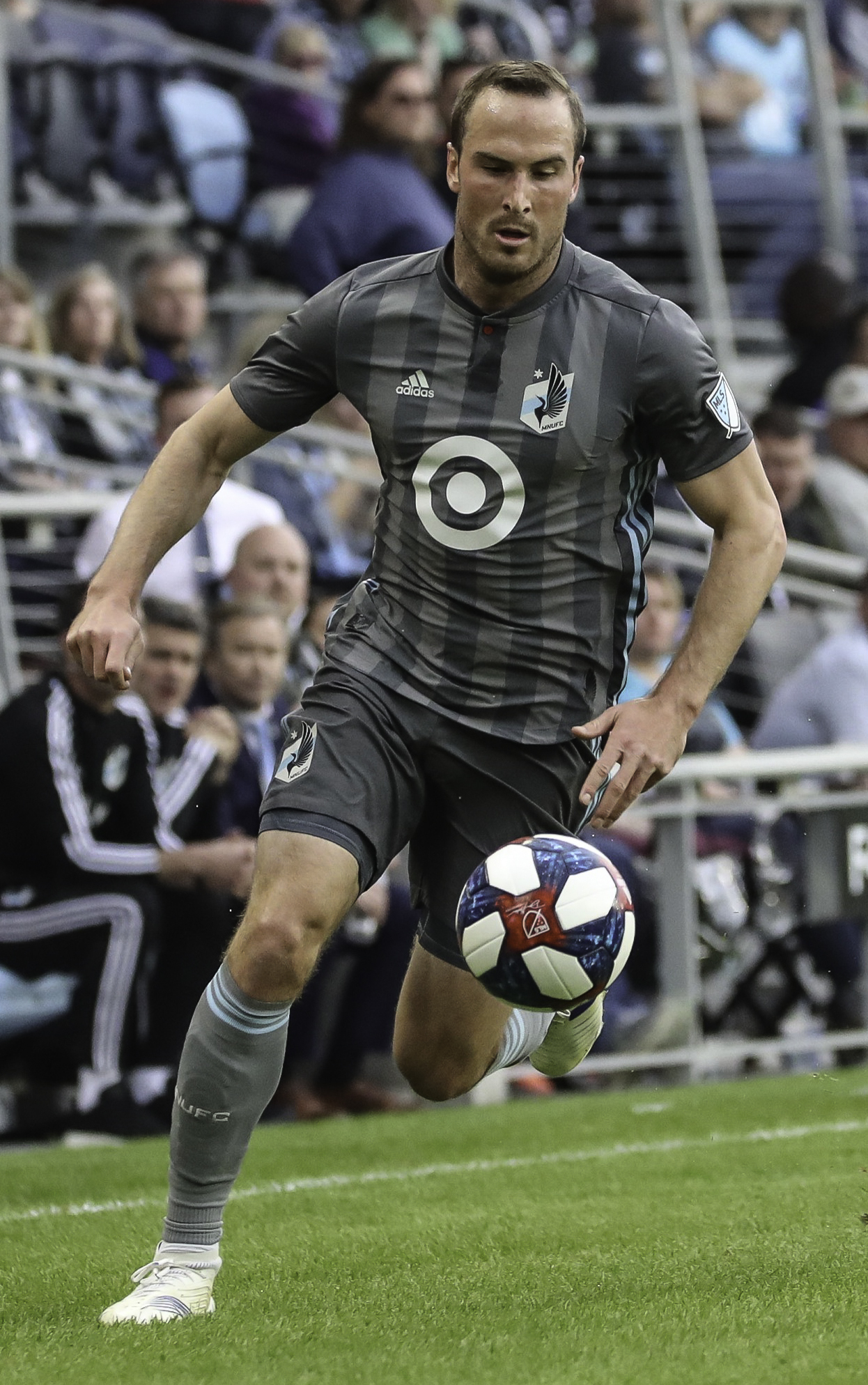 Minnesota United - MNUFC v Seattle Sounders - MLS Soccer - Allianz Field, St. Paul Minnesota